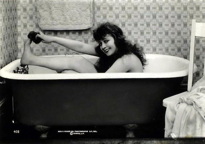 American actress Claire Anderson in a bathtub, likely taken for the short comedy film Bath Tub Perils (1916) as another still from this film has the same tub and wallpaper.